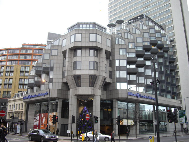 The Hilton at the Metropole This hotel is at the junction of Edgware Road and Praed Street